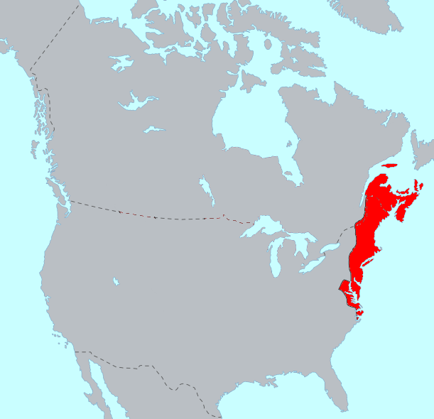 The original territory of the Eastern Algonquian languages